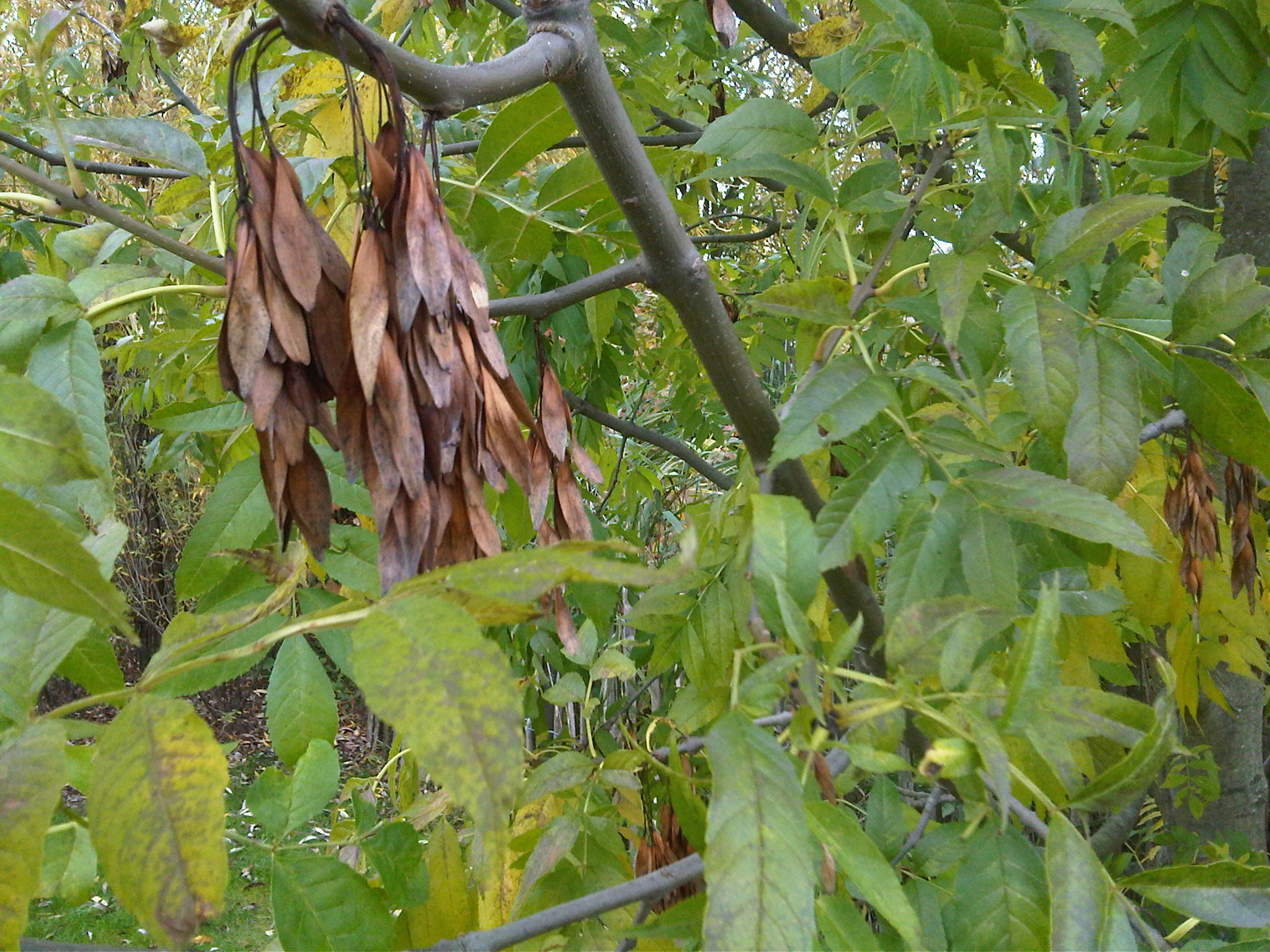 European Ash or Common Ash (Fraxinus excelsior) seeds in WWT London Wetland Centre, England.